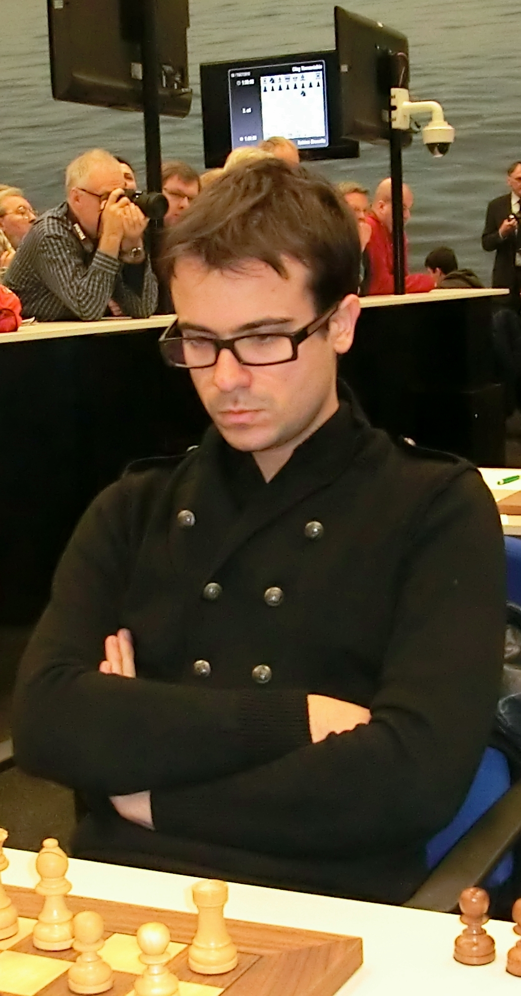 Romain Edouard, chess grandmaster from France